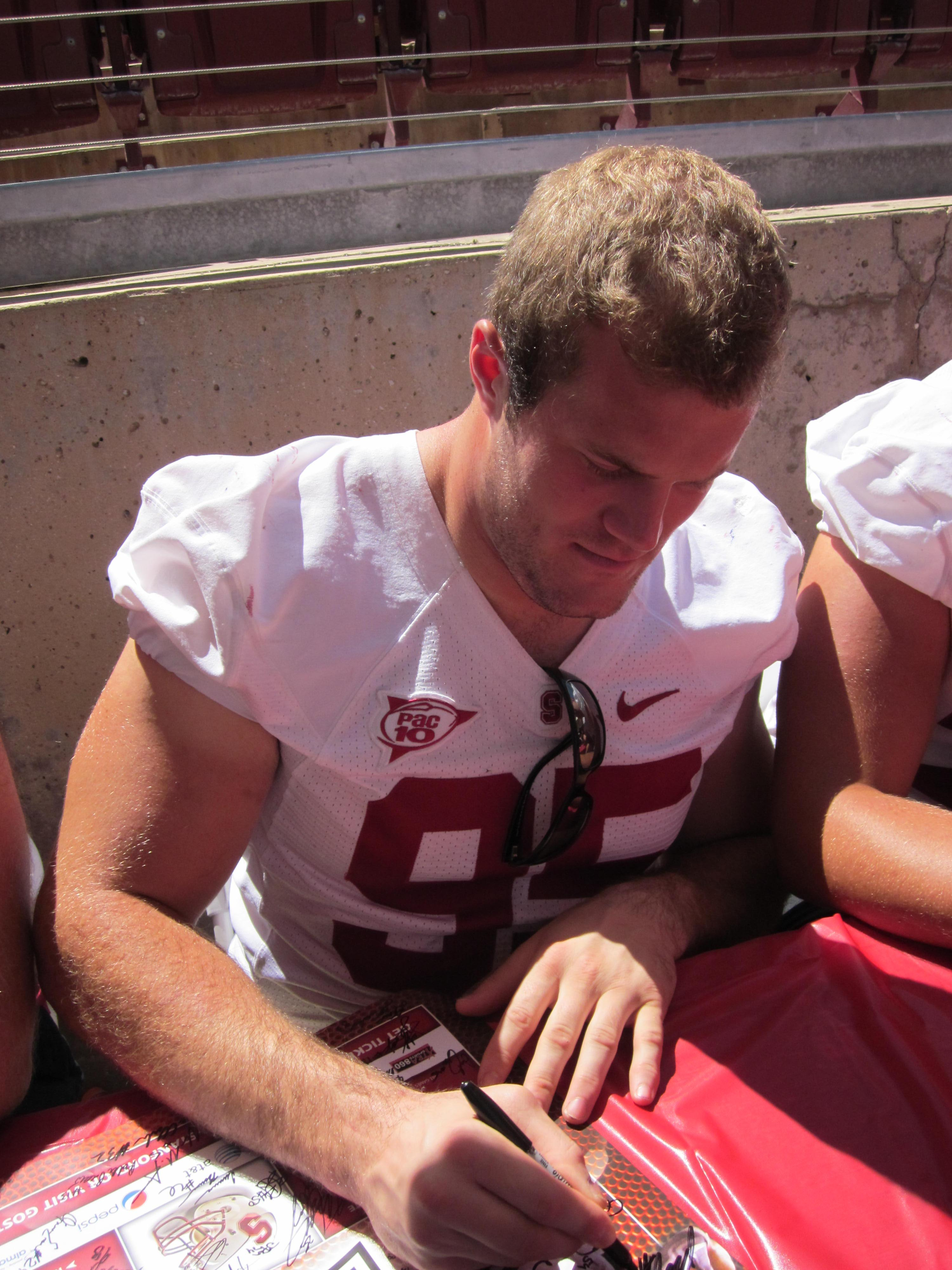 Stanford defensive lineman Brian Bulcke at the football open house at Stanford Stadium.